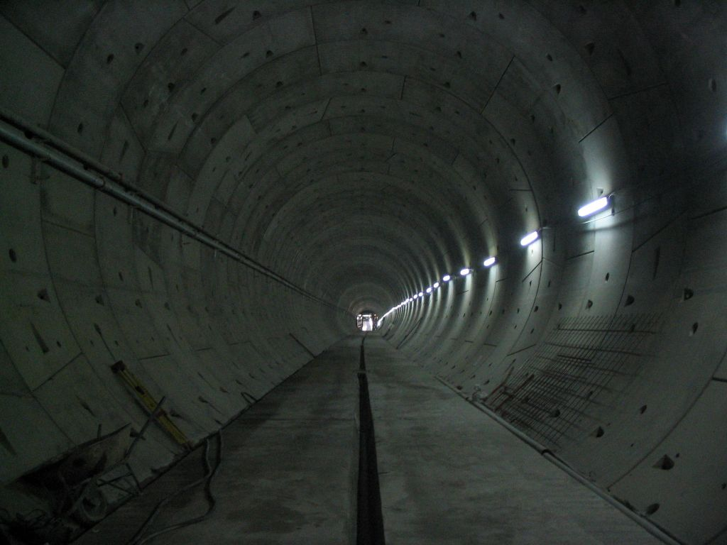 落馬洲支線-上水站-古洞站-南行線管道-古洞站方向 Lok Ma Chau Spur Line, Sheung Shui Station to Kwu Tung Station, view towards Kwu Tung Station